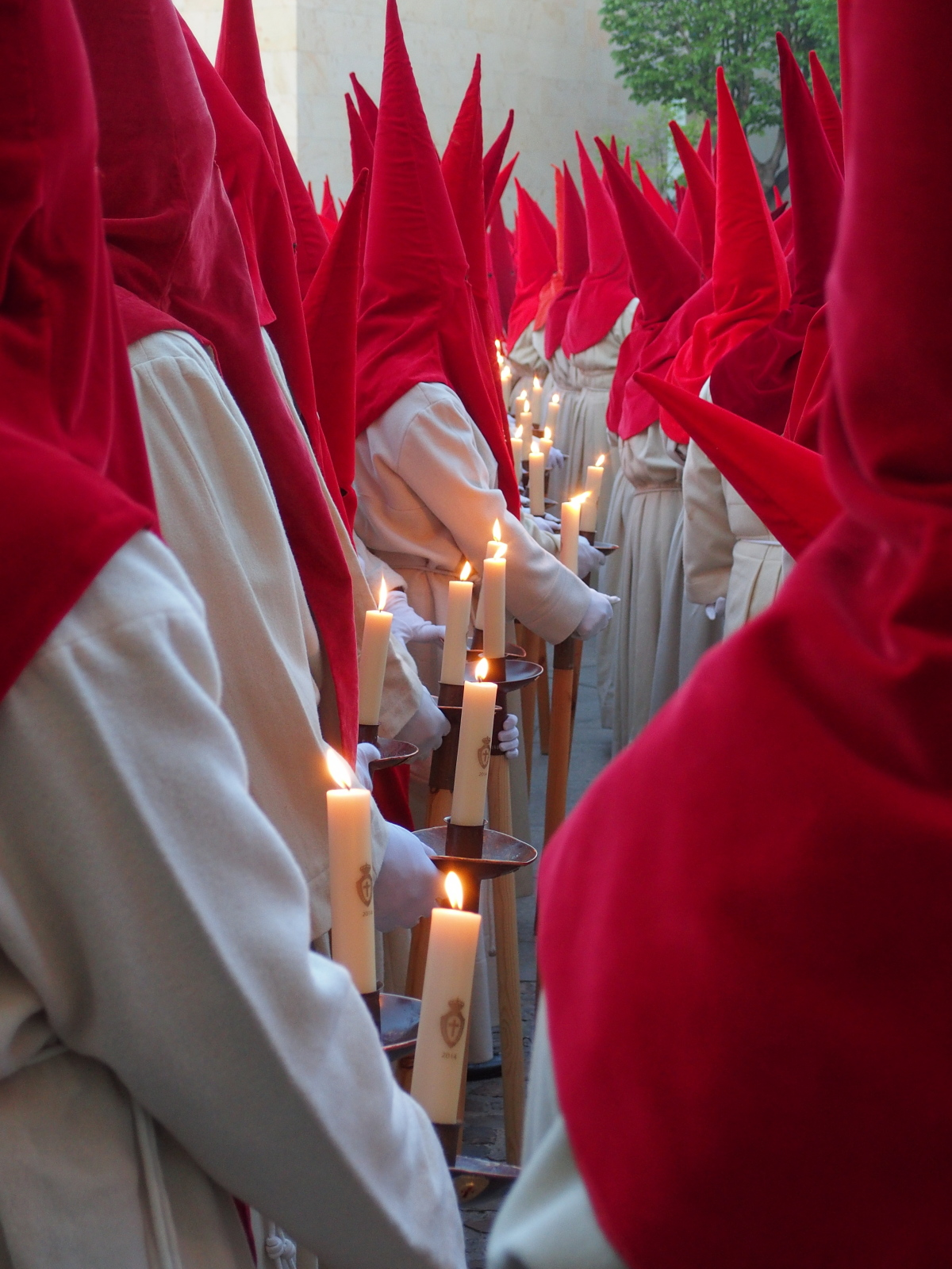 Parade of the religious brotherhood Real Hermandad del Santisimo Cristo de las Injurias (Zamora, Spain, Holy Week 2014)